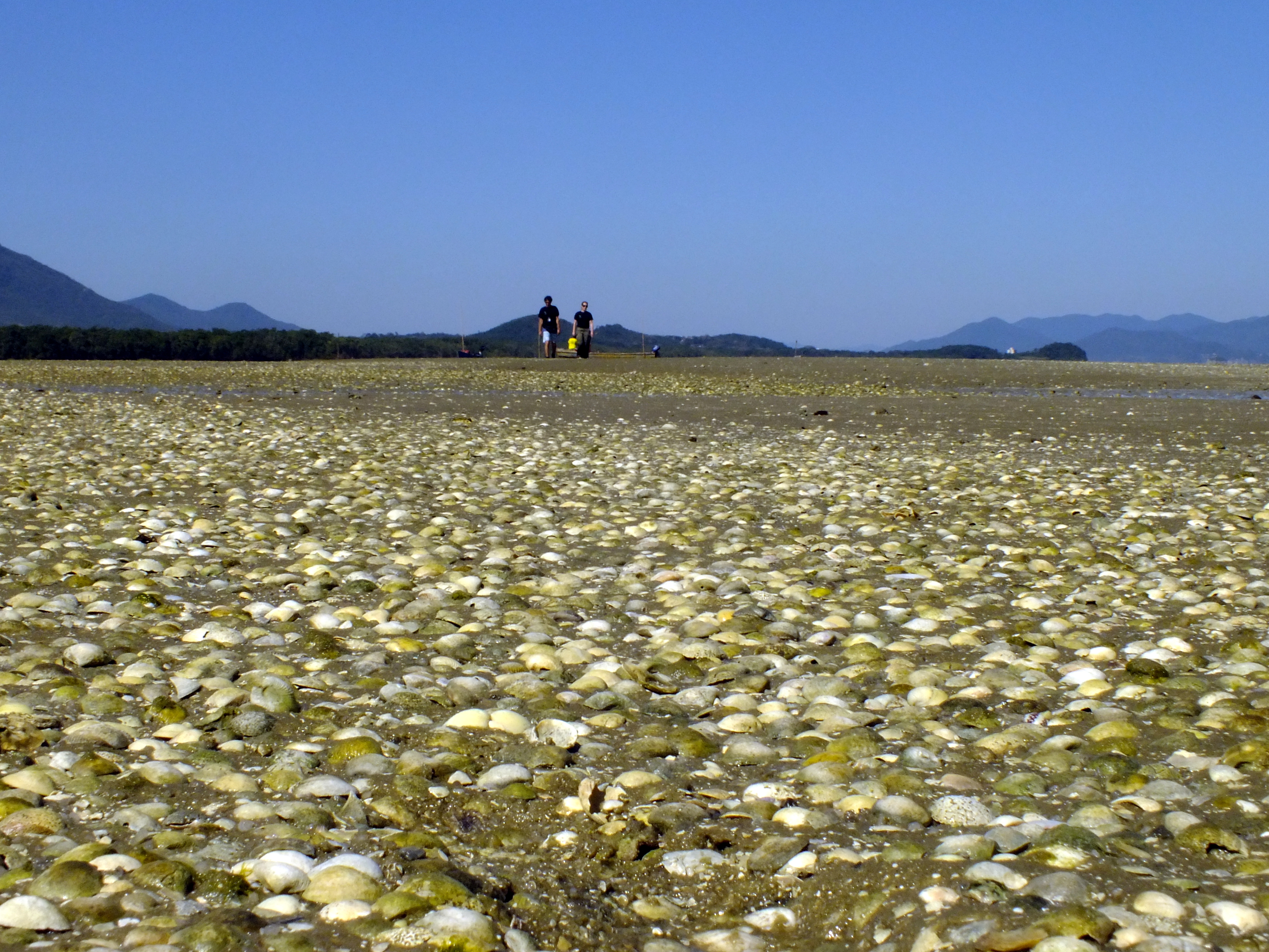 sand bank